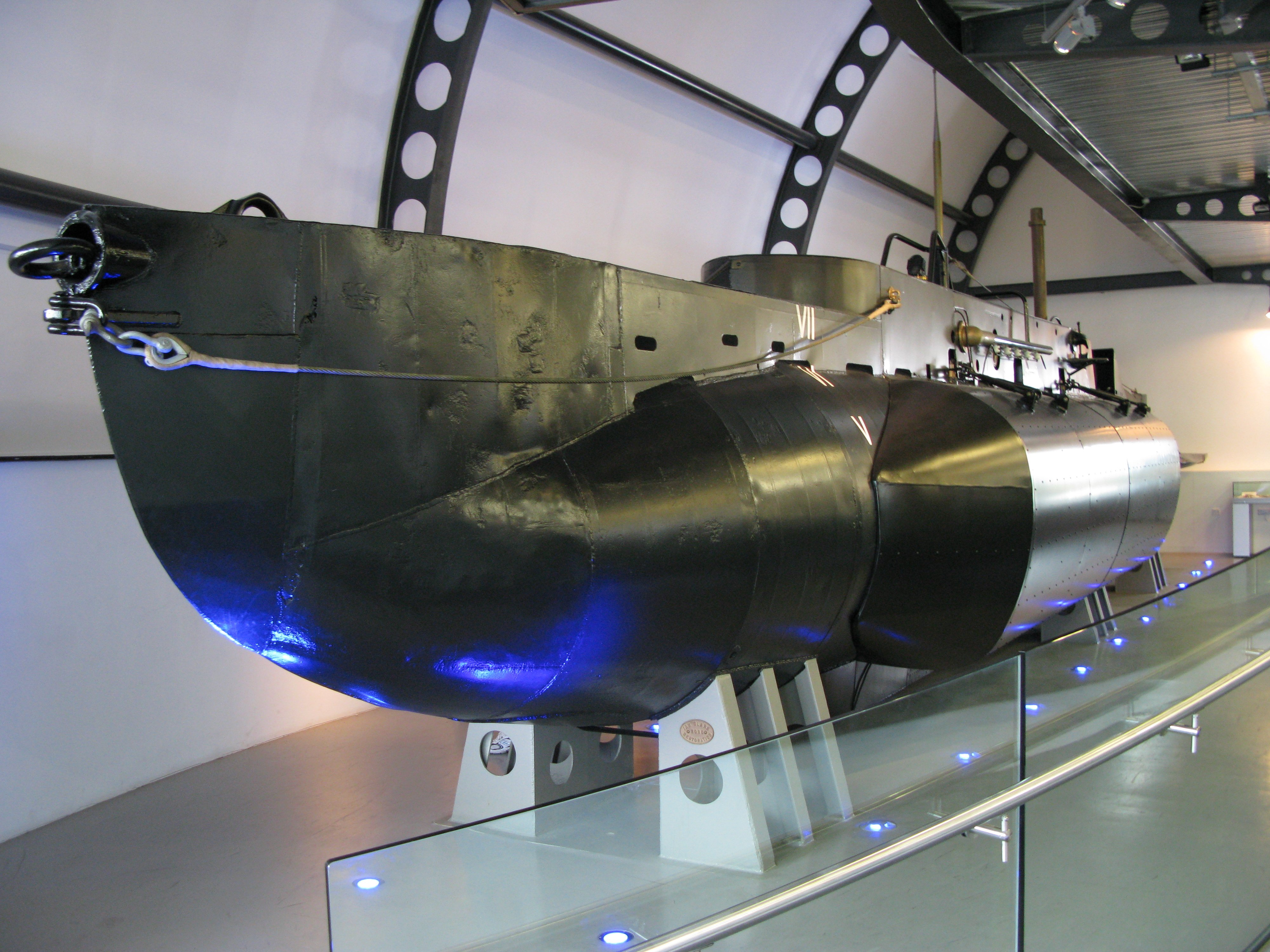 A photo of the only preserved x craft X24